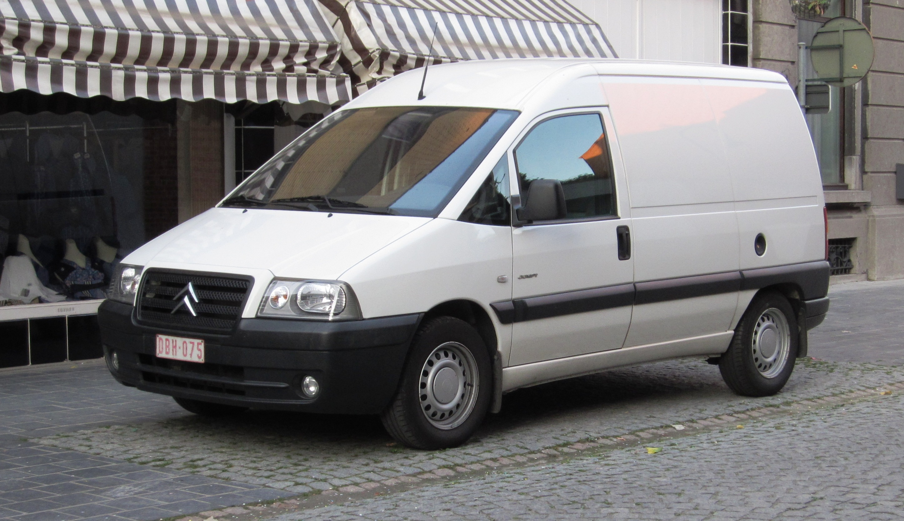 Citroën Jumpy in St Trond. This is the facelifted version of the first generation, built between 2004 and 2007.